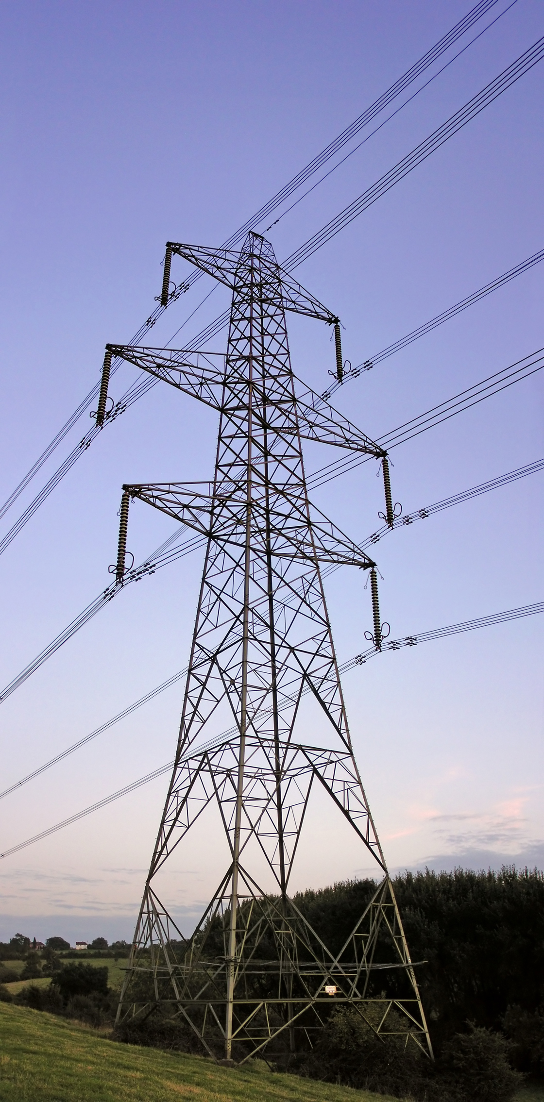 L6 D Electricity transmission tower, near Aust, Gloucestershire, England.